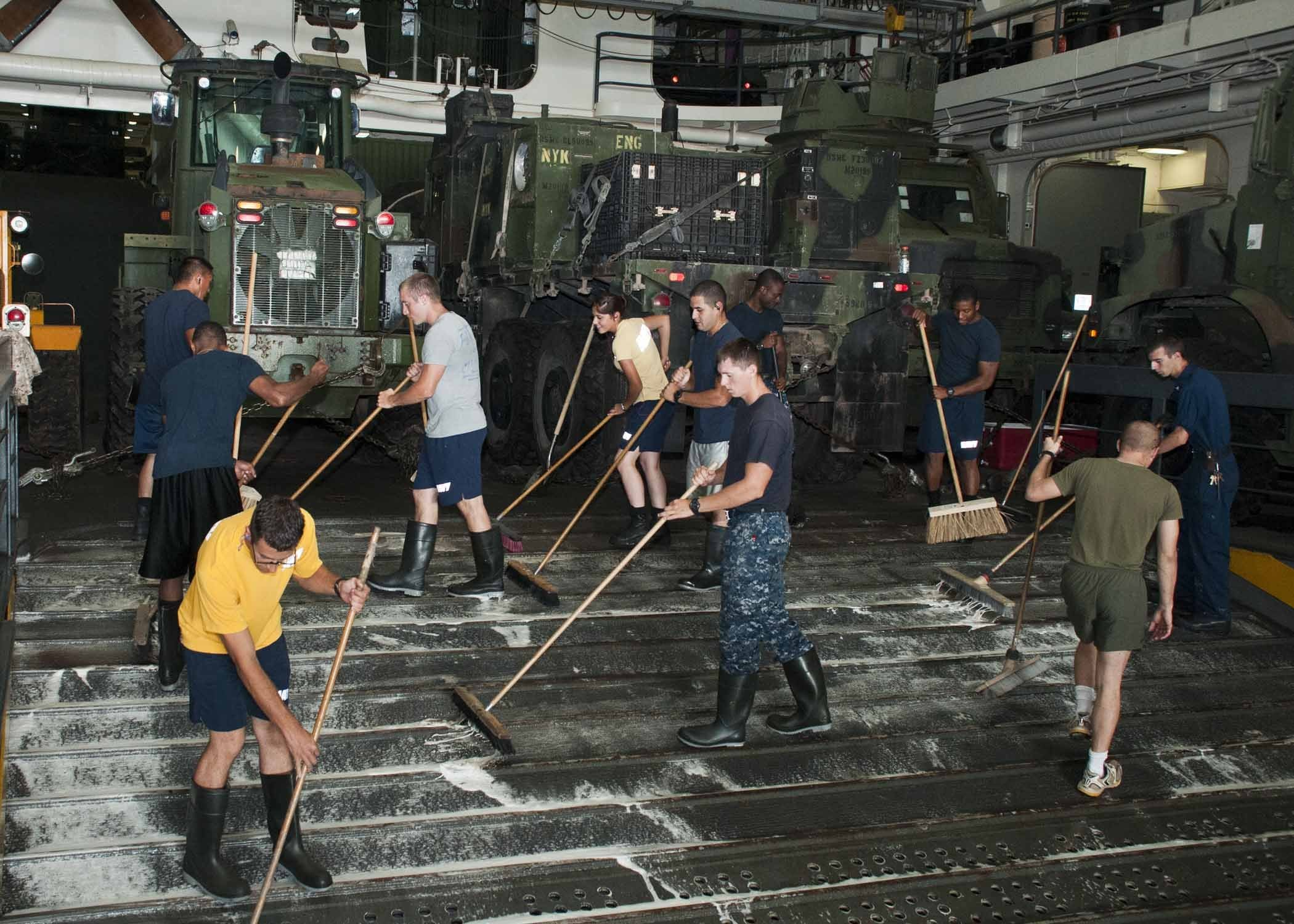 Sailors and Marines conduct a wash down of the vehicle stowage area and well deck aboard the amphibious transport dock ship USS New York (LPD 21). New York is part of the Iwo Jima Amphibious Ready Group with the embarked 24th Marine Expeditionary Unit and is deployed in support of maritime security operations and theater security cooperation efforts in the U.S. 5th Fleet area of responsibility. The U.S. Navy is constantly deployed to preserve peace, protect commerce, and deter aggression through forward presence. Join the conversation on social media using #warfighting. (U.S. Navy photo by Mass Communication Specialist Seaman Cyrus Roson/Released)